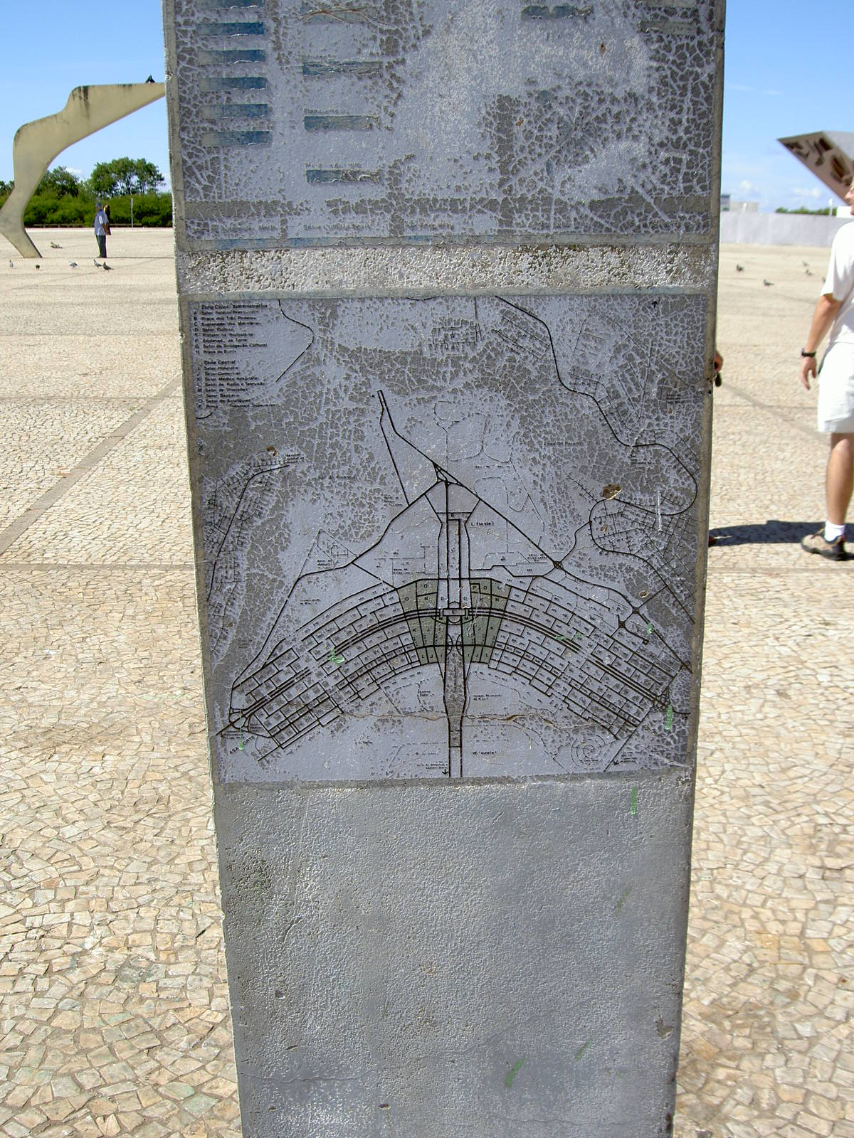 Brasília plan on a stela